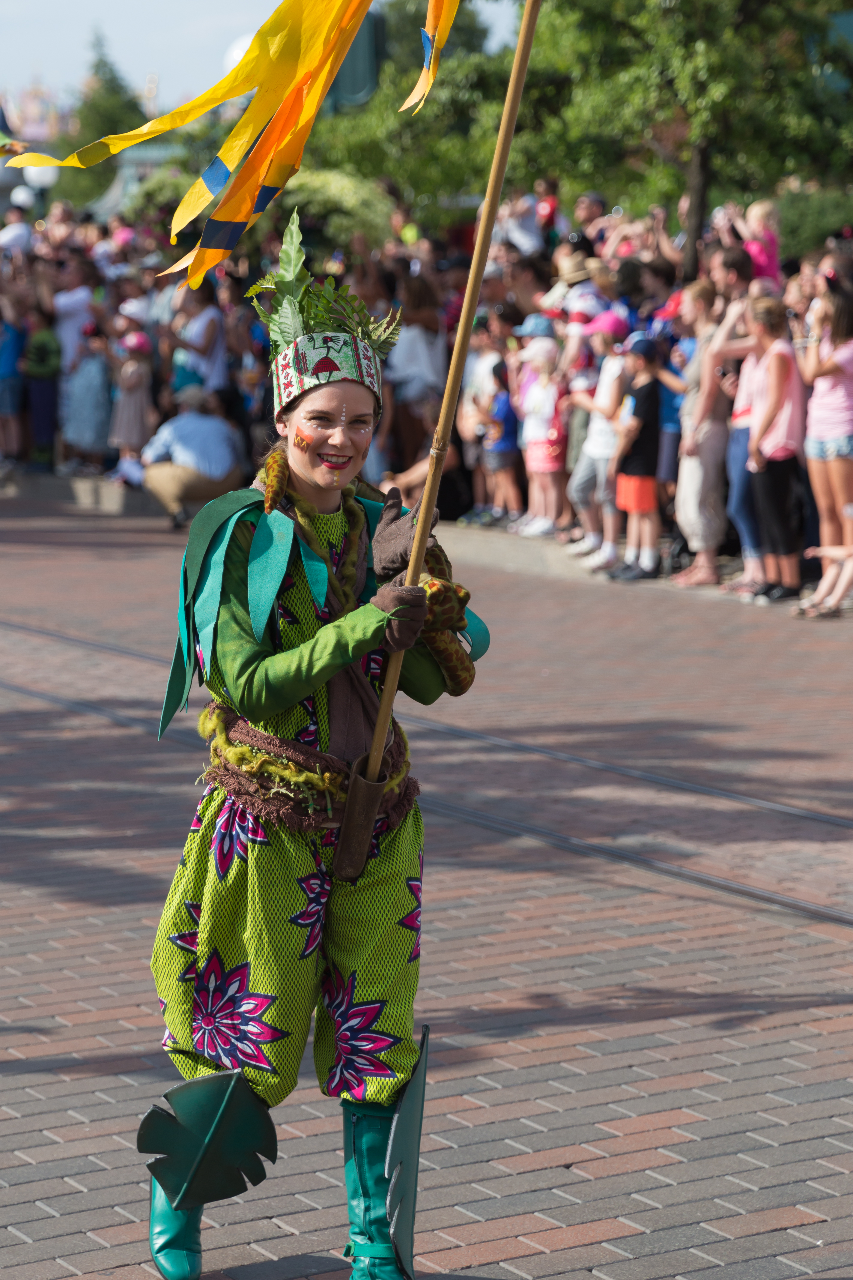 Disney Character illustrating The Lion King at the Disney Magic On Parade in Disneyland Paris.